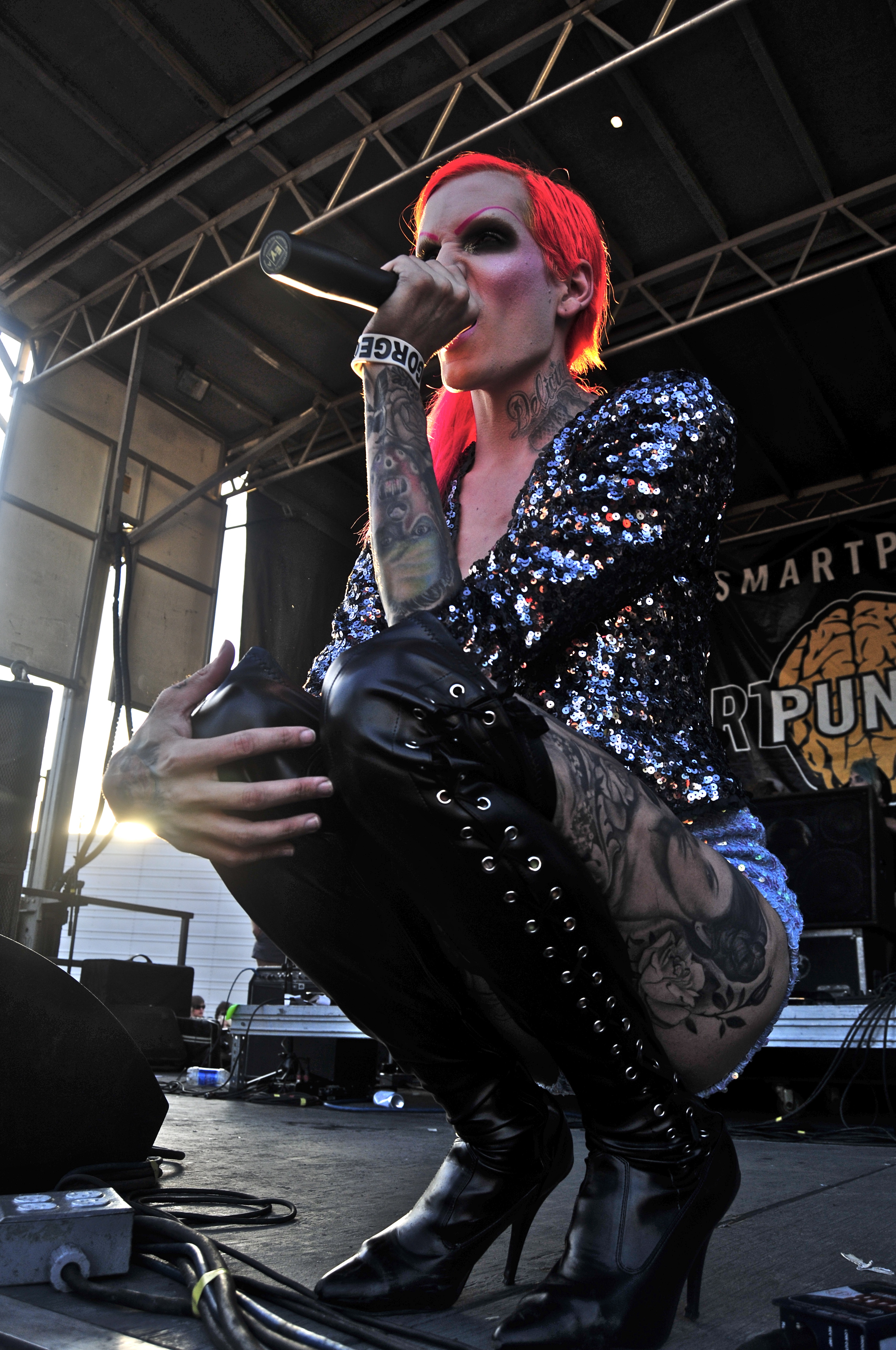 Jeffree Star at the Warp Tour